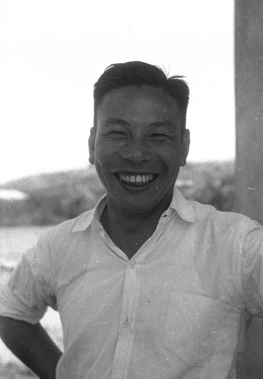 Chiang Ching-kuo in Gannan during the early 1940s. Chiang Ching-kuo was appointed as commissioner of Gannan Prefecture (贛南) between 1939 and 1945.